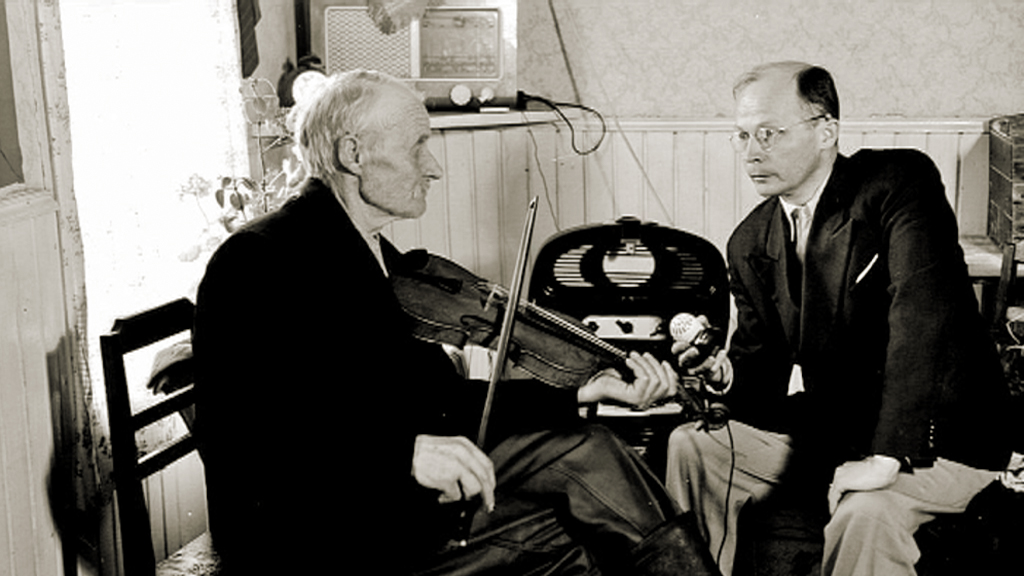 Photograph of the Finnish ethnomusicologist Erkki Ala-Könni (1911–1996) interviewing and recording a Finnish folk musician.